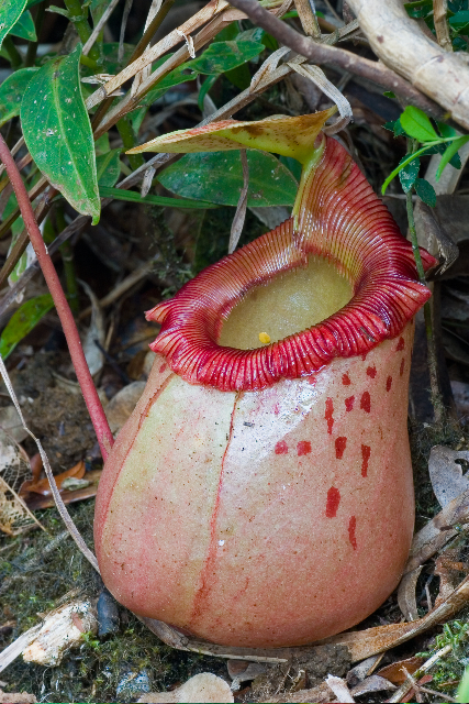 Nepenthes sibuyanensis photographed on the Knife Edge ridge of Mount Guiting-Guiting, Sibuyan (Alastair Robinson, June 2007) - globose lower pitcher.